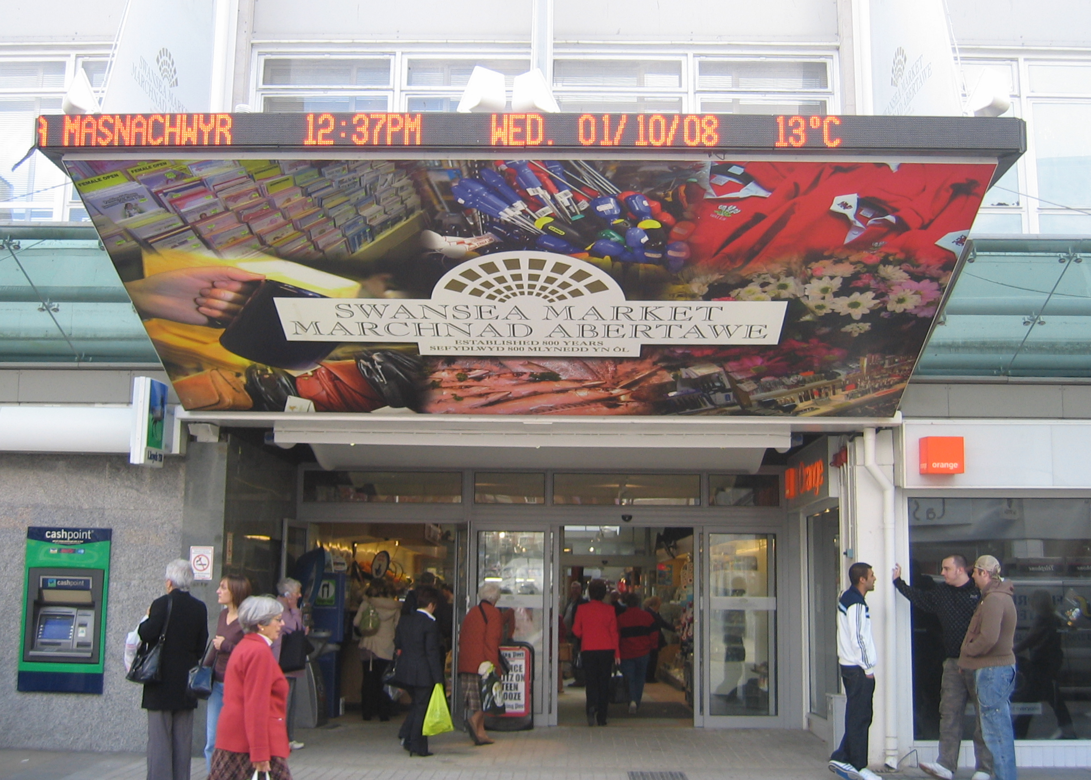 Swansea Markey, Swansea, Wales